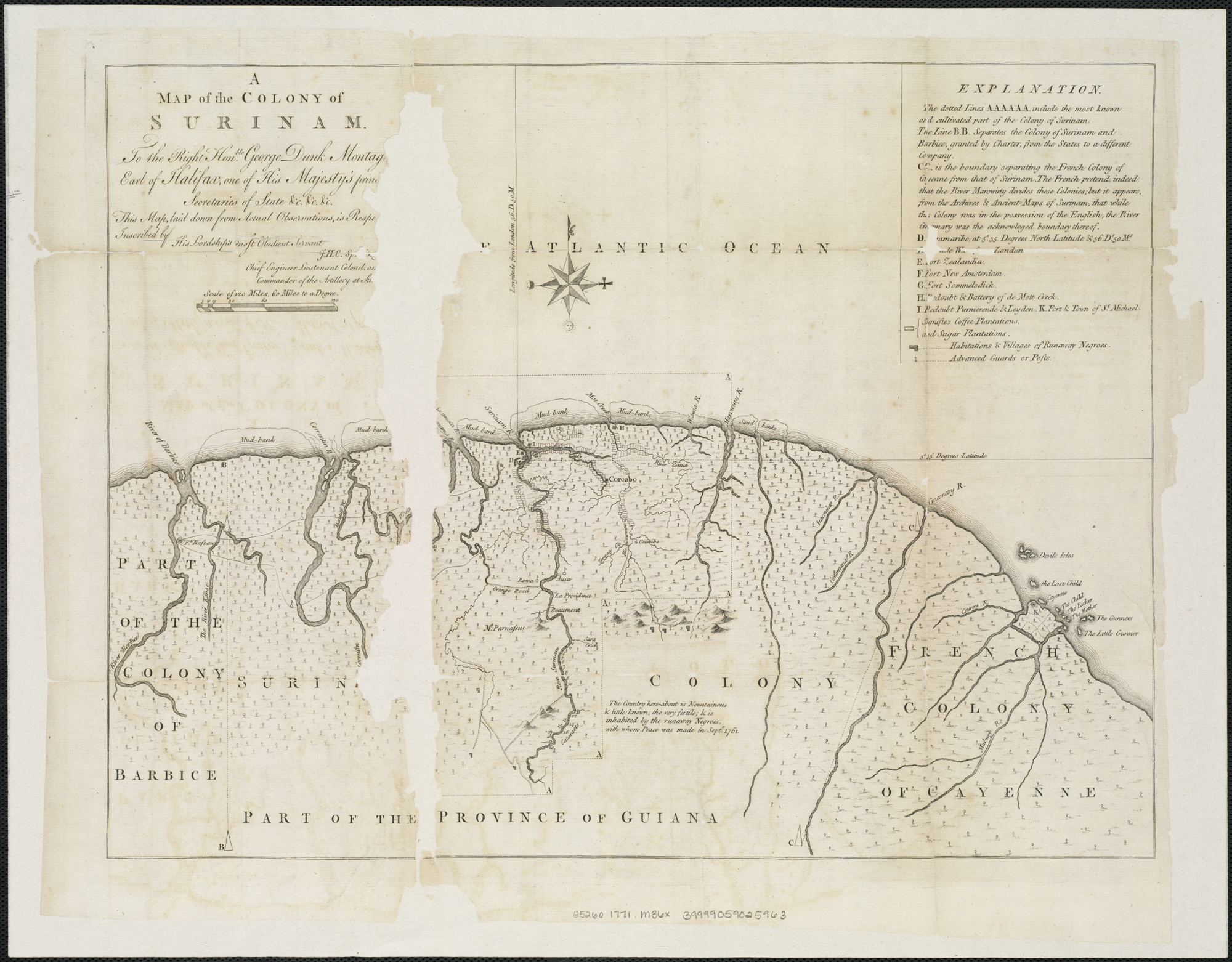 Zoom into this map at . Date: 1771 Location: Suriname Dimension 36x48cm Scale: ca. 1:3,800,000 Call Number: G5260 1771 .M36x